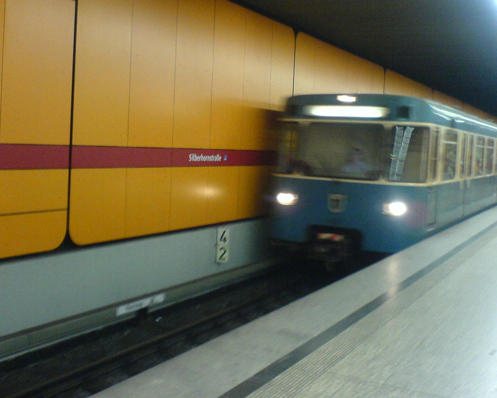 Silberhornstraße - Munich U-Bahn station of line U2 (platform).